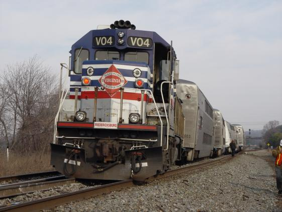 Derailed Virginia Railway Express train near Quantico, Virginia